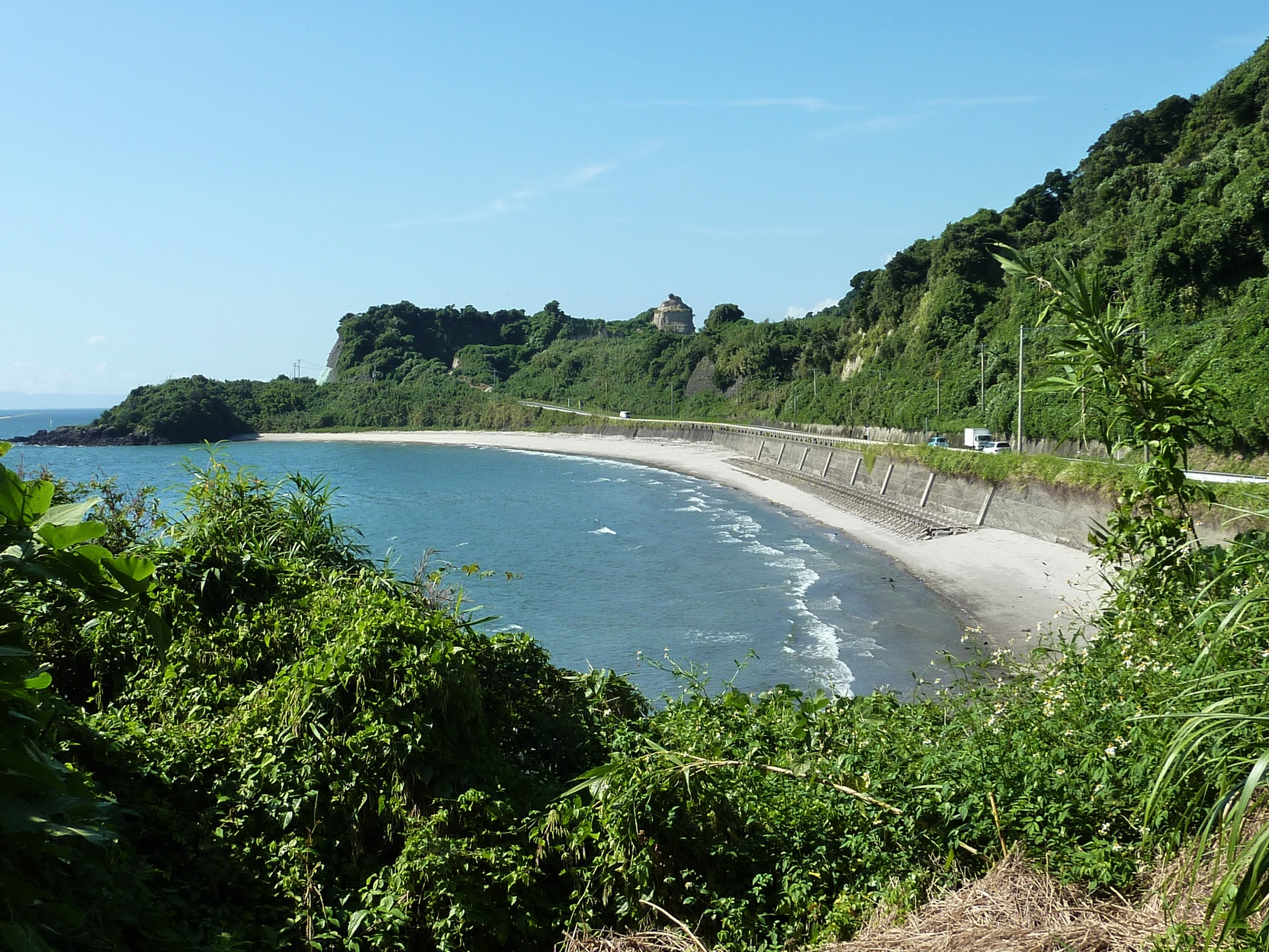 Kanehama Beach - Takasu-cho, Kanoya City, Kagoshima Prefecture, Japan